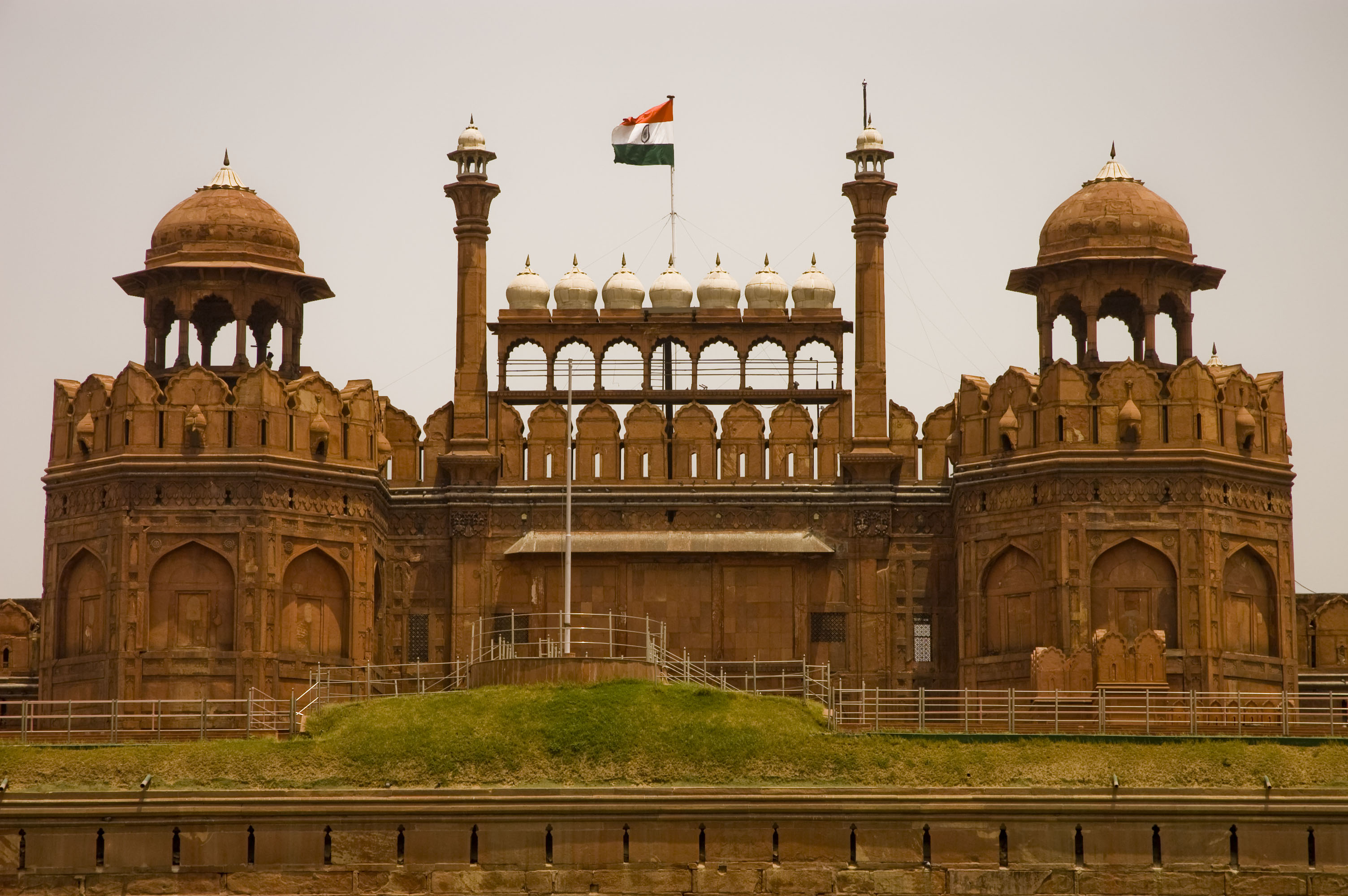 Red fort also known as the Lal Quila was a mansion built by Shah jahan